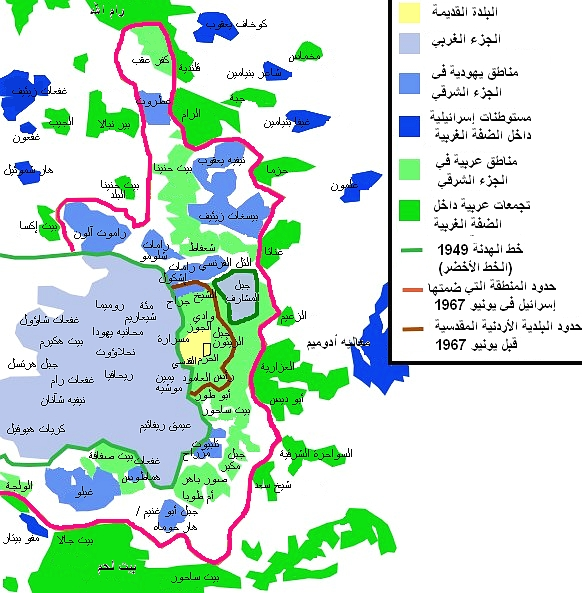 Map of East Jerusalem Old City West Jerusalem and Mount Scopus East Jerusalem, Jewish areas West Bank, Jewish areas East Jerusalem, Arab areas West Bank, Arab areas —1949 Armistice Line —East Jerusalem Boundary —Pre-1967 Municipality Boundary